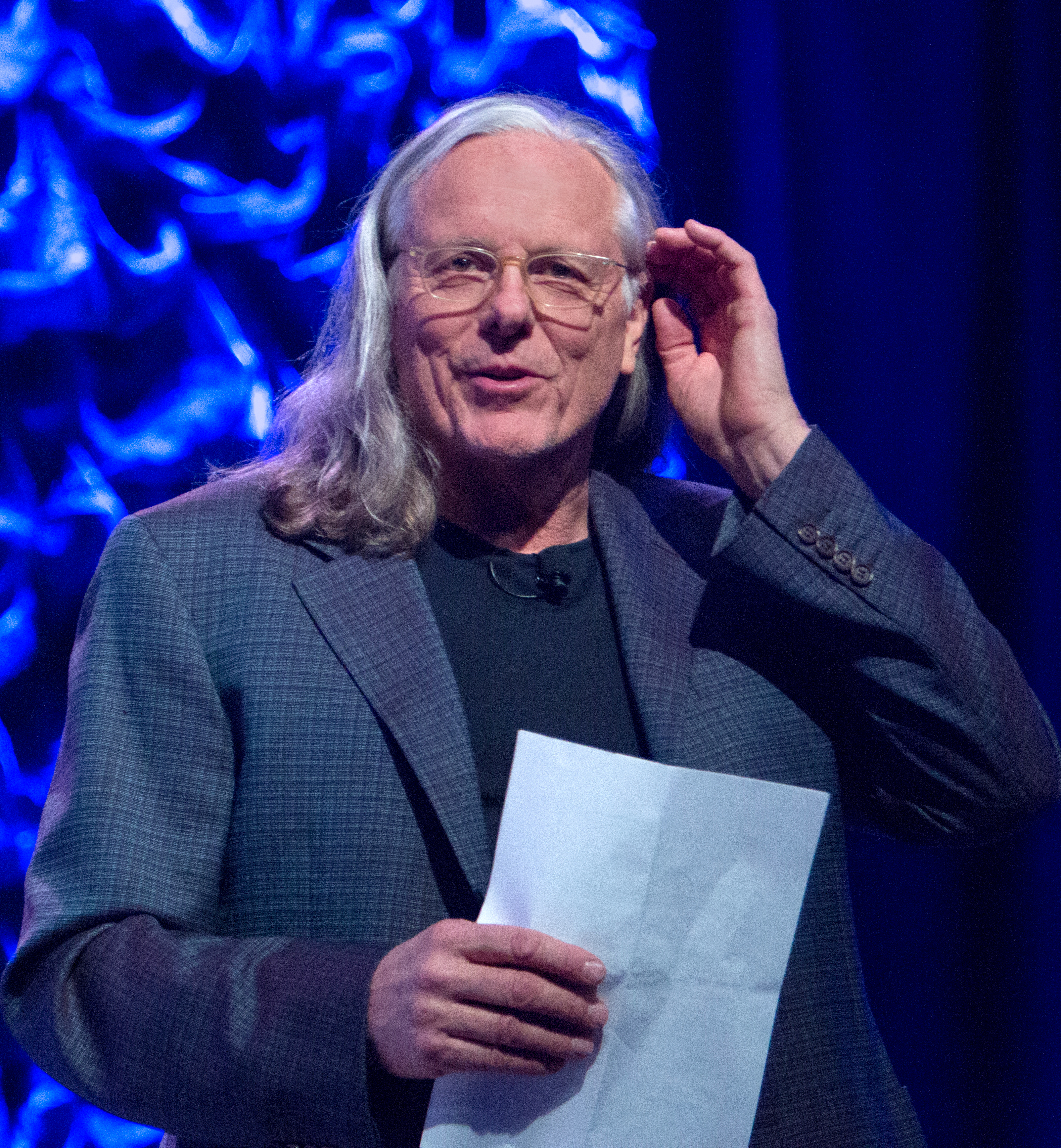 From the session "Life after Gawker". Photo: Ståle Grut/NRKbeta Session description: Nick Denton, CEO of Gawker, recently told CNN, “The best regulator for speech is more speech.” For SXSW 2017, Jeff Goodby, Goodby Silverstein & Partners Co-Chairman, will interview Gawker’s Denton, focusing on the issue of our first amendment rights in the Internet era, a grave concern to SXSW attendees. In this lively discussion, Goodby and Denton will discuss the future of news delivery, freedom of the press online, and the shadow forces that are working to undermine this constitutional right.